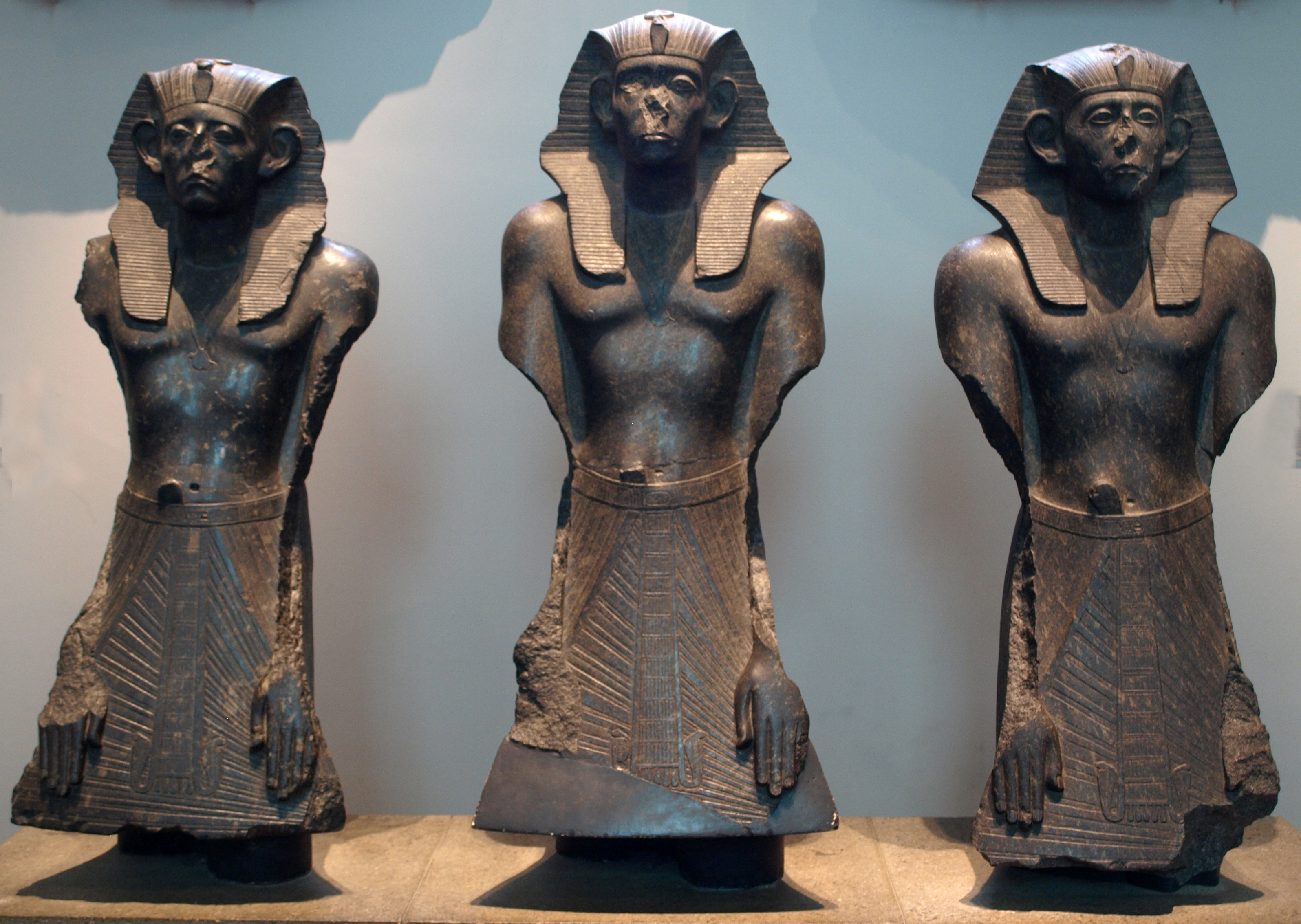 Three black granite statues of the pharaoh Sesotris III, seen face-on. From the time of the 12th dynasty, circa 1850 BC. Originally from Deir el-Bahri. EA 684, 685, 686.